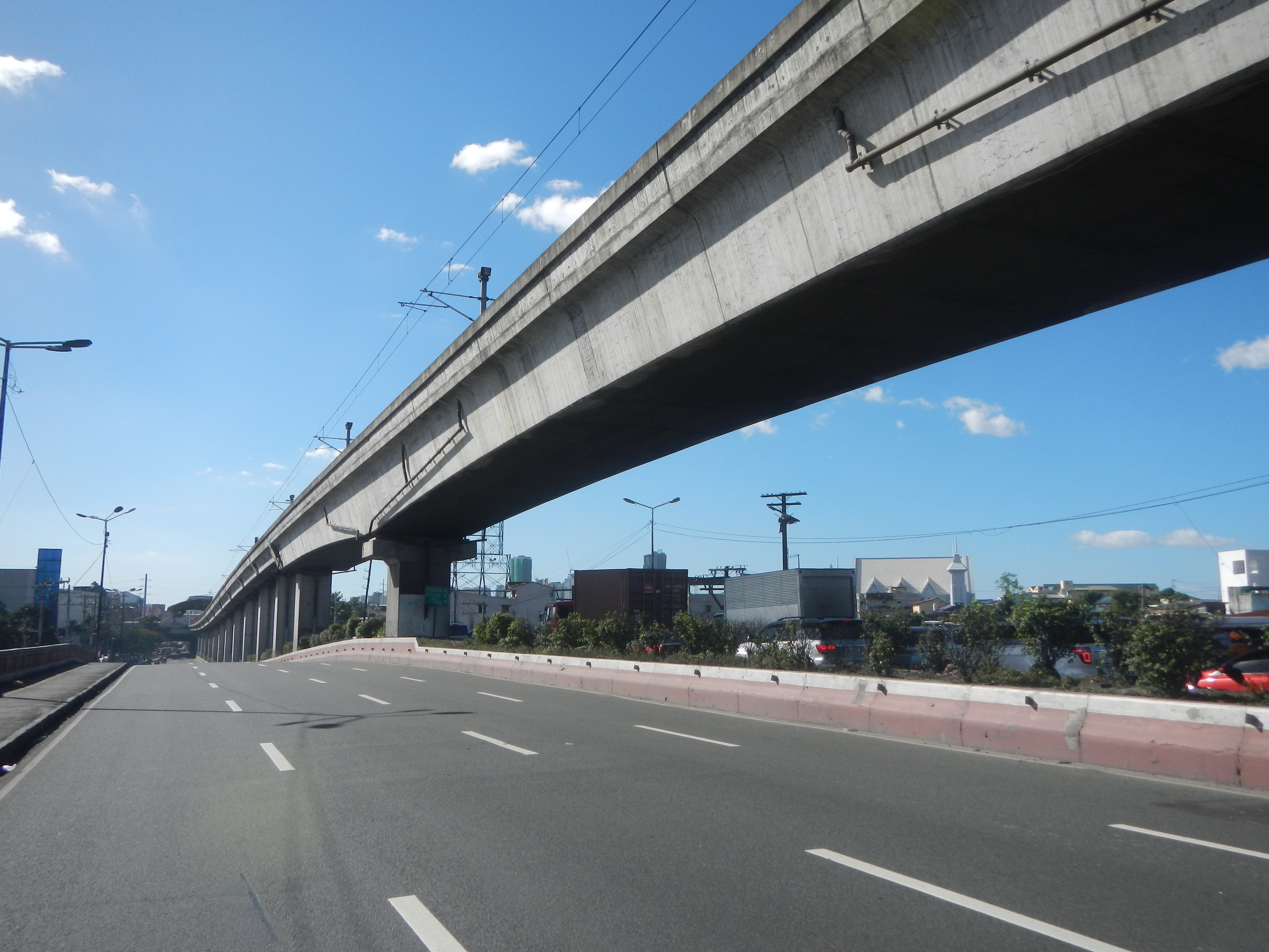 Pureza LRT Station Major roads in Manila List of renamed streets in Metro Manila along Magsaysay Boulevard List of barangays of Metro Manila towards Pureza Street & Pureza Extension, Teresa Street from Ramon Magsaysay Bridge II Load Limit 20 metric Tons, Old Santa Mesa Street 14°35'59"N 121°0'59"E Valenzuela Street 14°36'6"N 121°1'29"E8020 Barangays 601, Zone 59, District VI, A. P. Sanchez Street 14°35'44"N 121°1'16"E Padre Sanchez Street (R-5) 14°35'42"N 121°1'22"E Santa Mesa has 49 barangays (Barangays 587-636) to Sevilla Bridge (San Juan River, Shaw Boulevard Mandaluyong City) Load Limit 20 metric tons K0008+846 K0008+783length 63 meters (Note: Judge Florentino Floro, the owner, to repeat, Donor Florentino Floro of all these photos hereby donate gratuitously, freely and unconditionally all these photos to and for Wikimedia Commons, exclusively, for public use of the public domain, and again without any condition whatsoever).